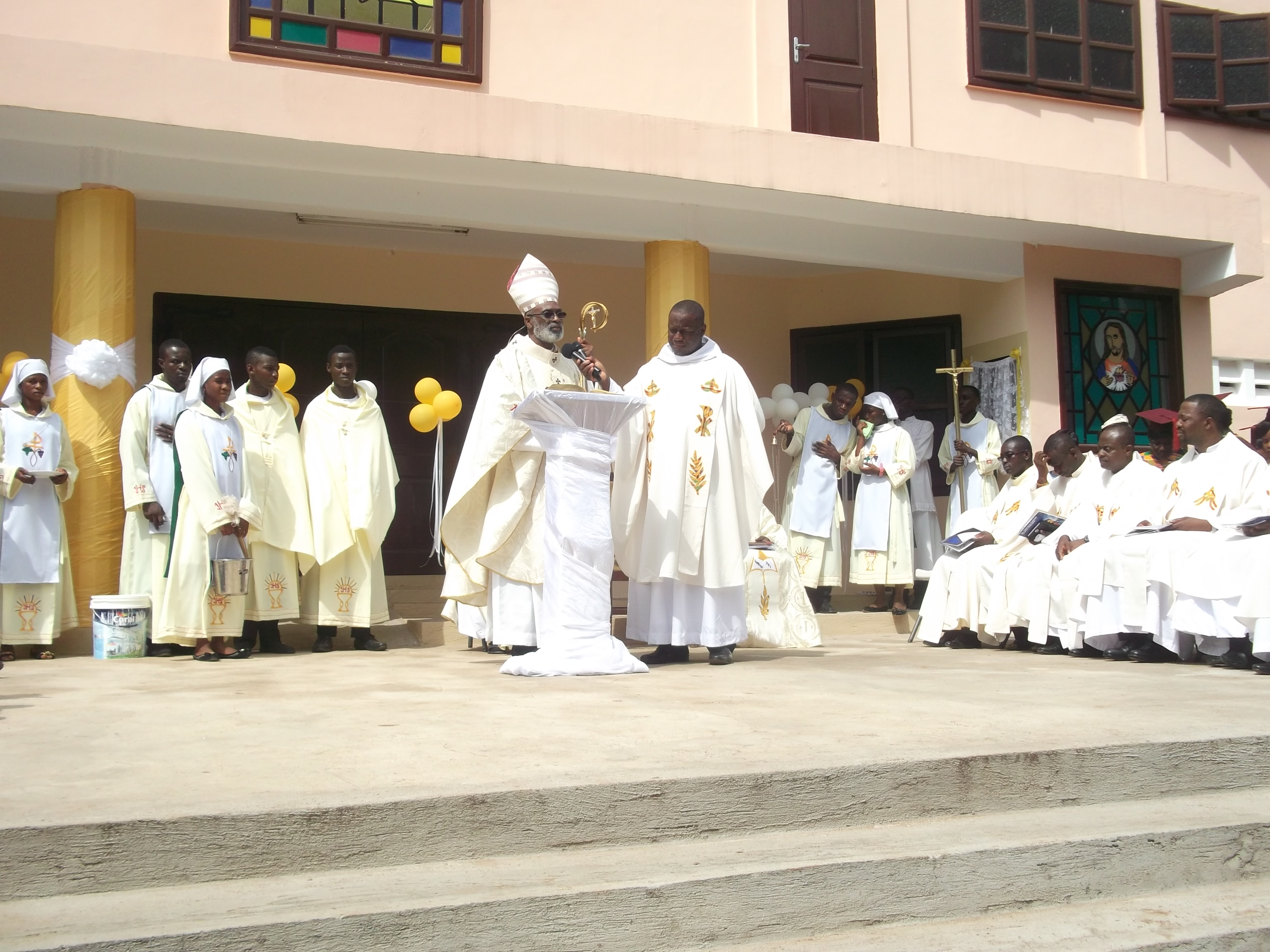 St Sylvanus Catholic Church Dedication at Pokuase